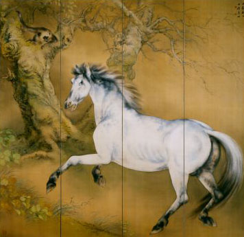 Title: Uncontrollable Lusts